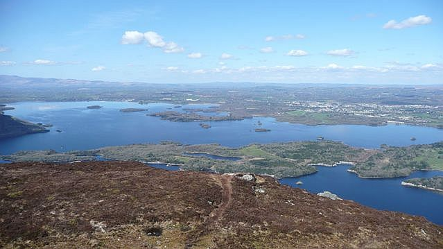 Panorama from Torc Mountain (2). Looking north over Lake Leane (main) and Muckross Lake (right), two of the Lakes of Killarney. The trip to the top of Torc Mountain is popular for this view alone. Next picture: 777022